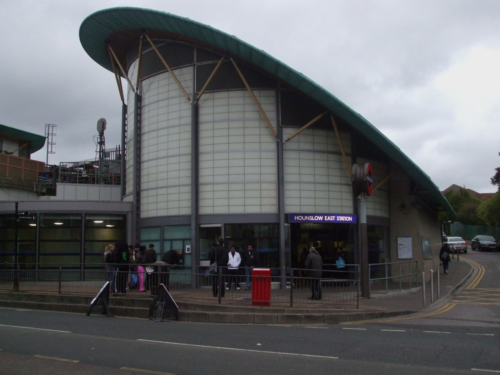 Hounslow East tube station new building